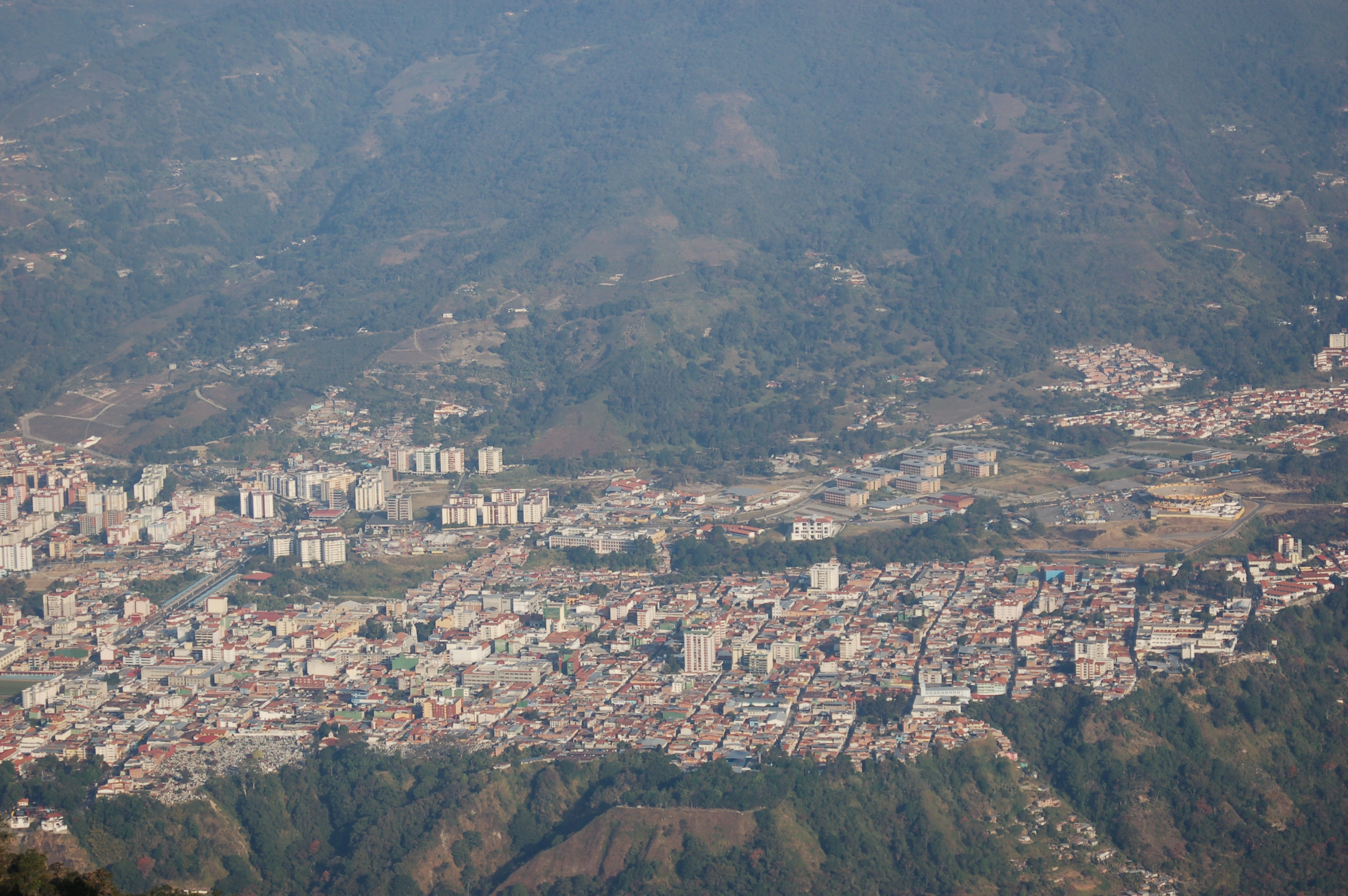 Panoramic view of the city of Merida, Venezuela, seen from the Merida Cable Car.